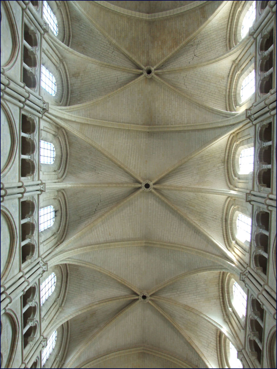 Cathédrale Notre-Dame de Laon (Cathedral Notre Dame of Laon), Laon, France - Interior